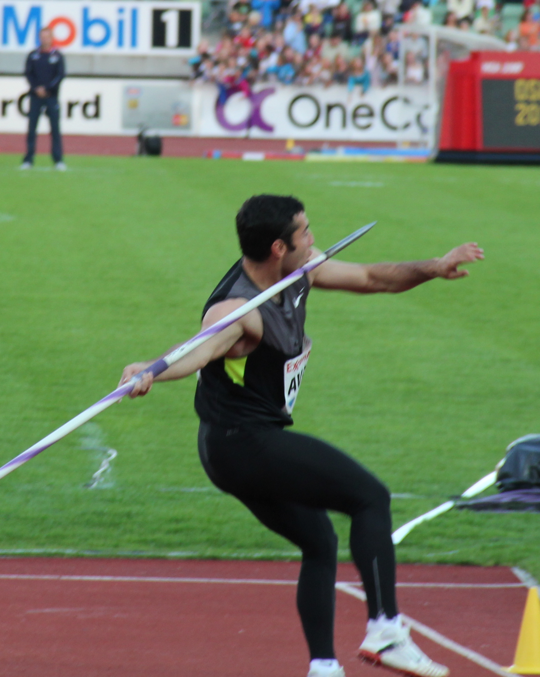 Fatih Avan at the 2012 Bislett Games